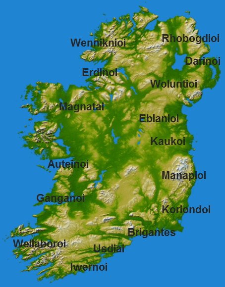 Topography of Ireland with added names.